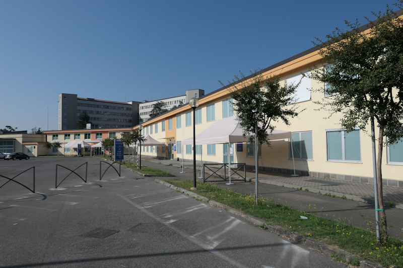 Crema (Italy), Ospedale (Hospital) Maggiore